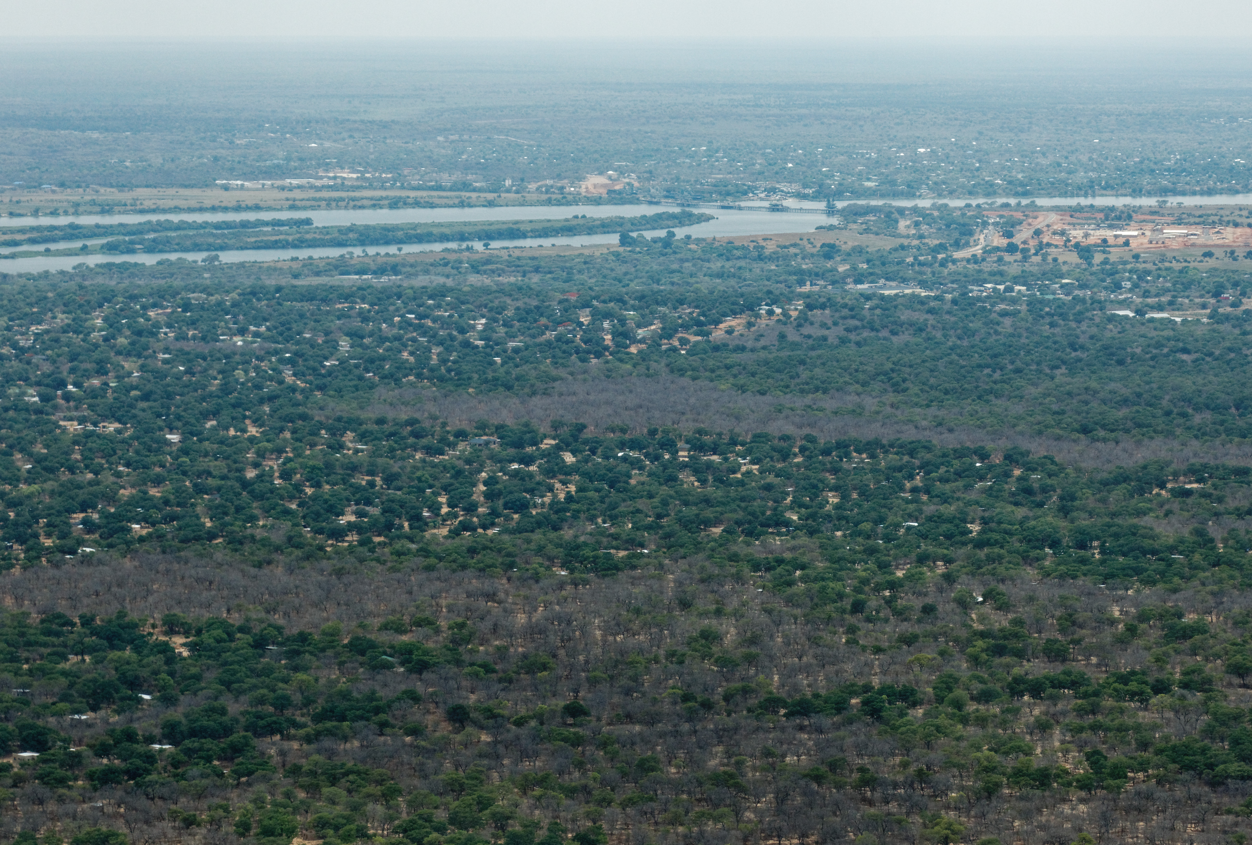 The Kazungula Bridge under construction over the Zambezi, at the quasi-quadripoint between Namibia, Botswana, Zambia, and Zimbabwe. Taken after take-off from Kasane airport.